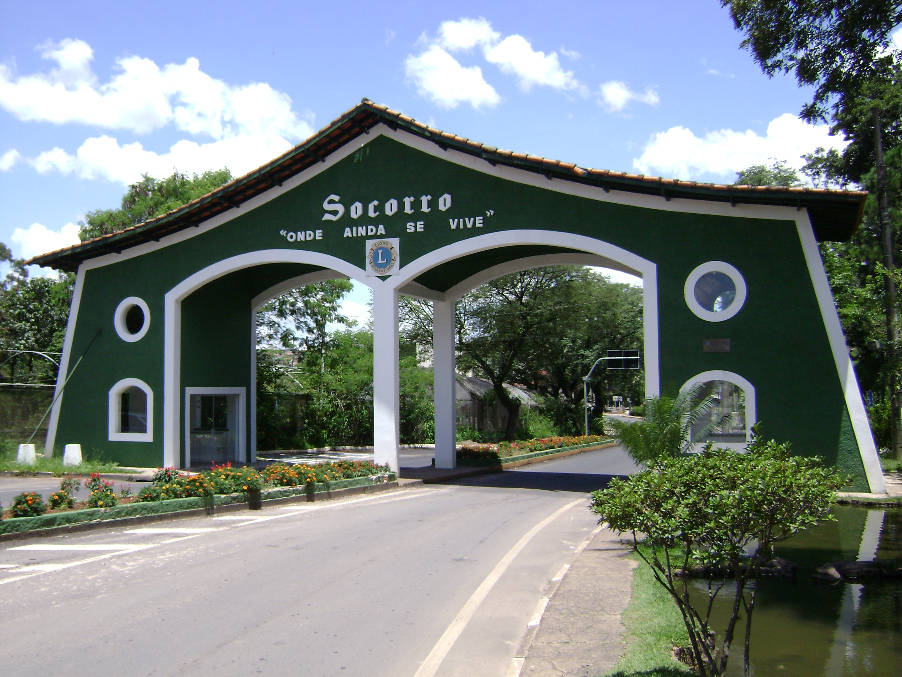 Socorro city north entrance gate, Brazil.